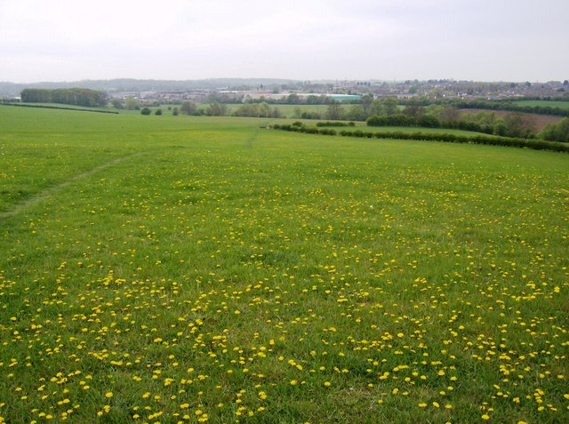 First view of Stamford Walking south-west on the Macmillan Way, from this meadow is the first view of Stamford. The footpath clips the corner of the hedged field on the right then drops down to the River Gwash.